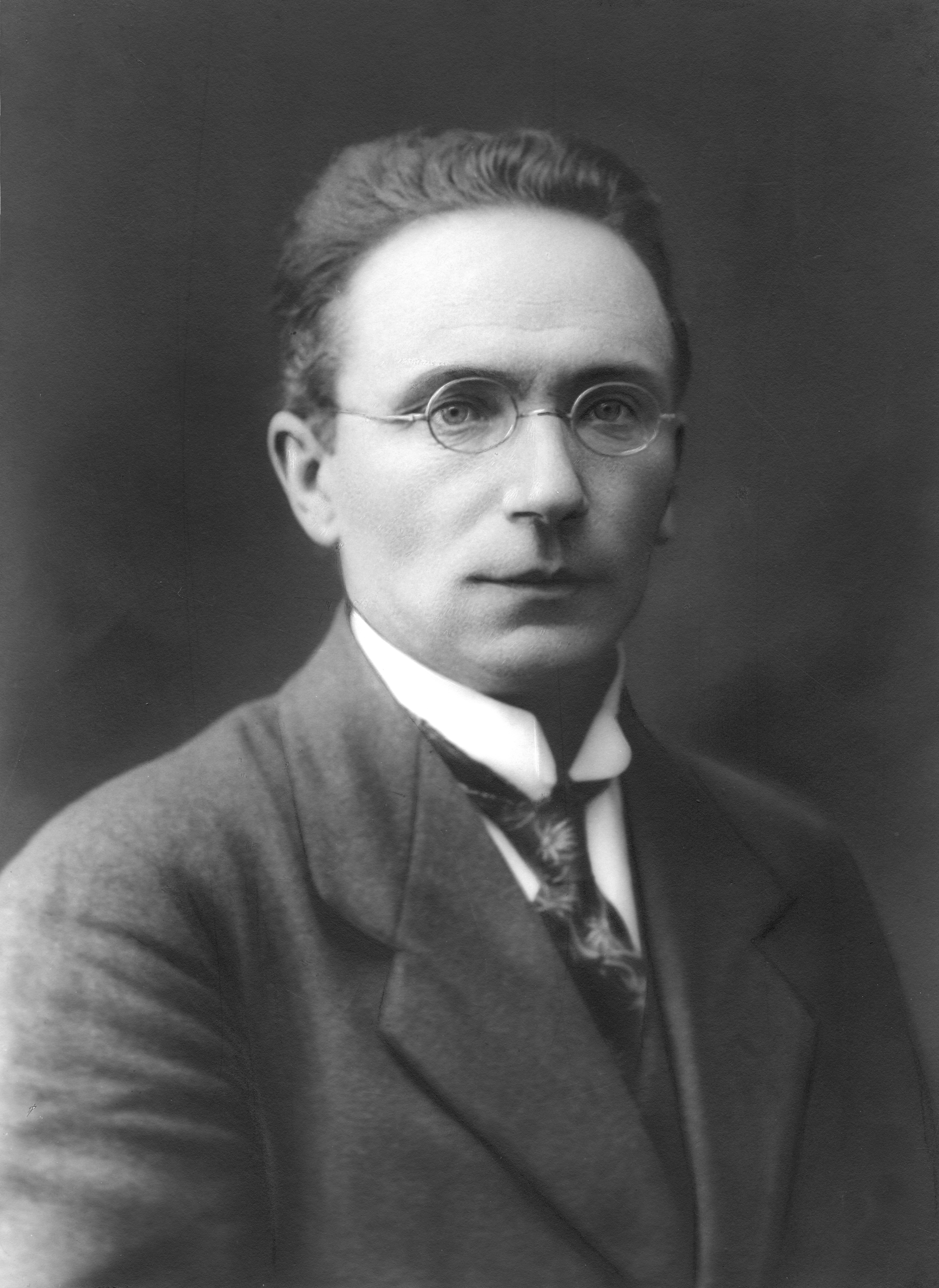 Estonian politican and educator Johannes Lehman.